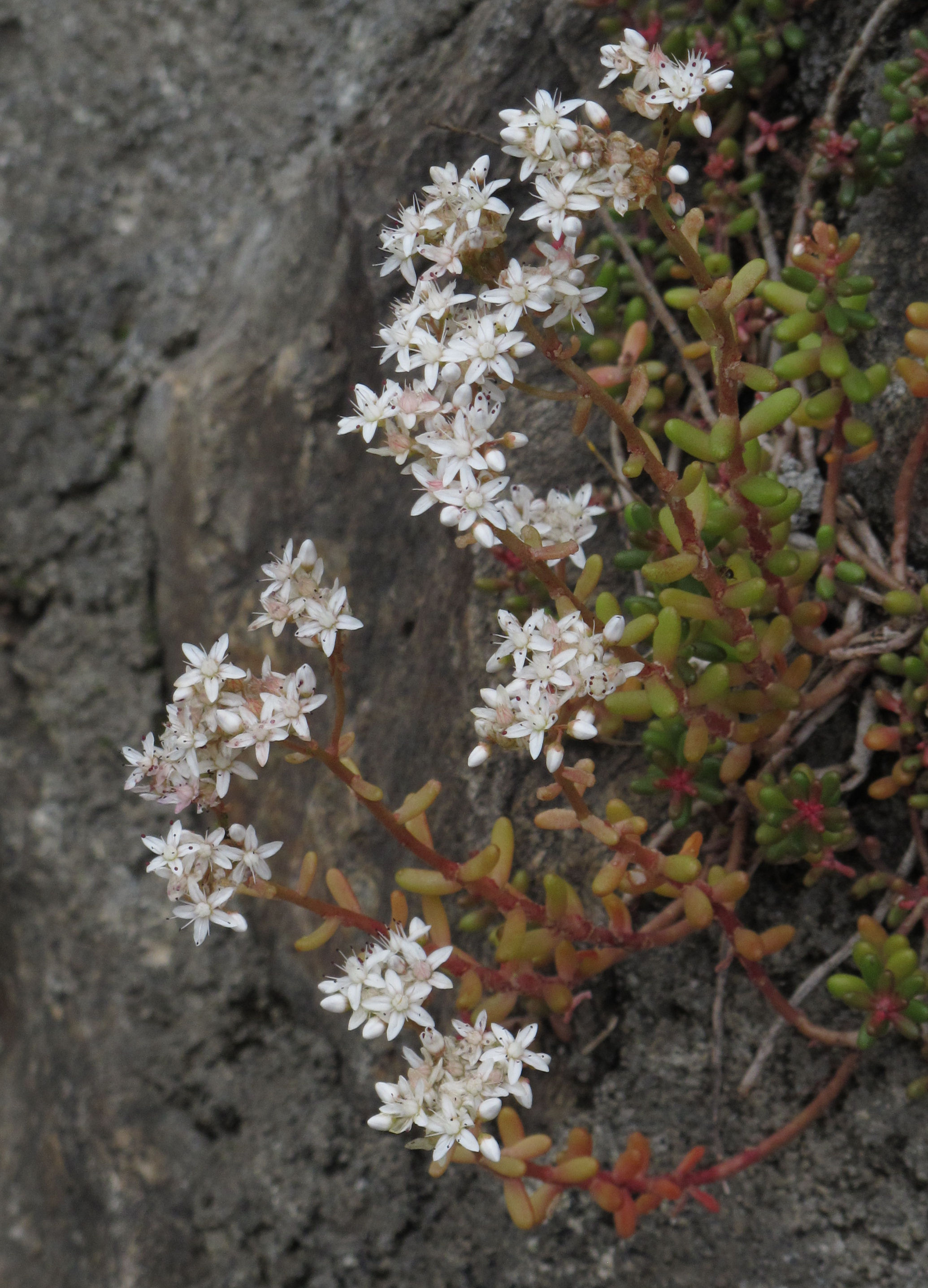 White stonecrop (Sedum album), Soglio, Bregaglia, Switzerland